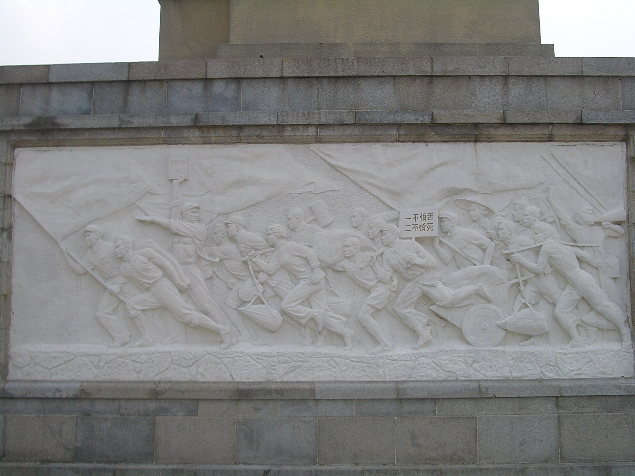 Monument to Wuhan's people overcoming the Yangtze Flood of 1954, with Mao Zedong's inscription. Left side view: relief displaying people fighting the flood, with the slogan, "一不怕苦，二不怕死" (First, don't fear hardships; second, don't fear death). This is said to be a Chinese Red Army's saying from the times of the Chinese Civil War; it was publicized by Mao Zedong in an April 1969 speech. ( “一不怕苦，二不怕死” )